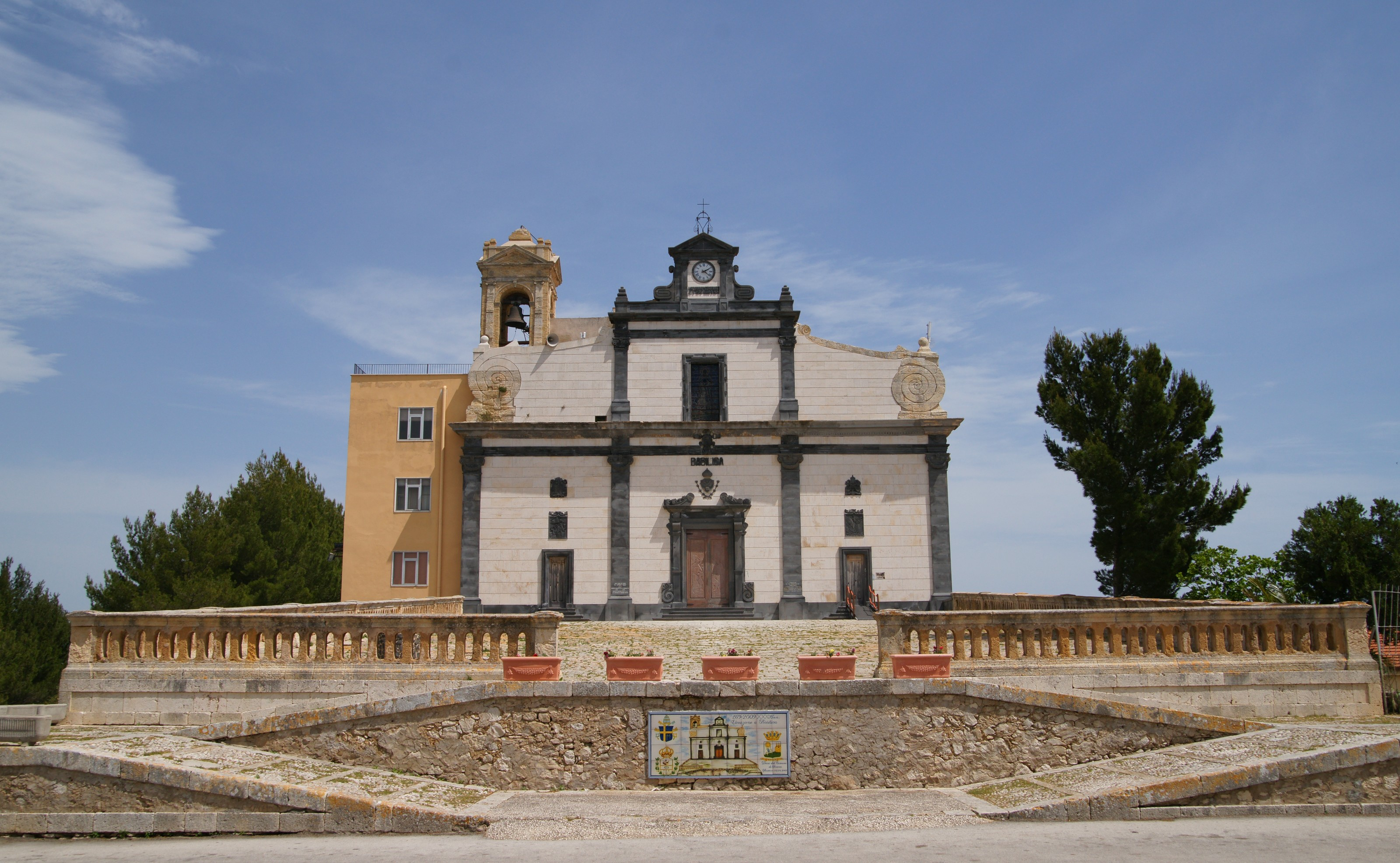 Sciacca: Chiesa di S.Calogero